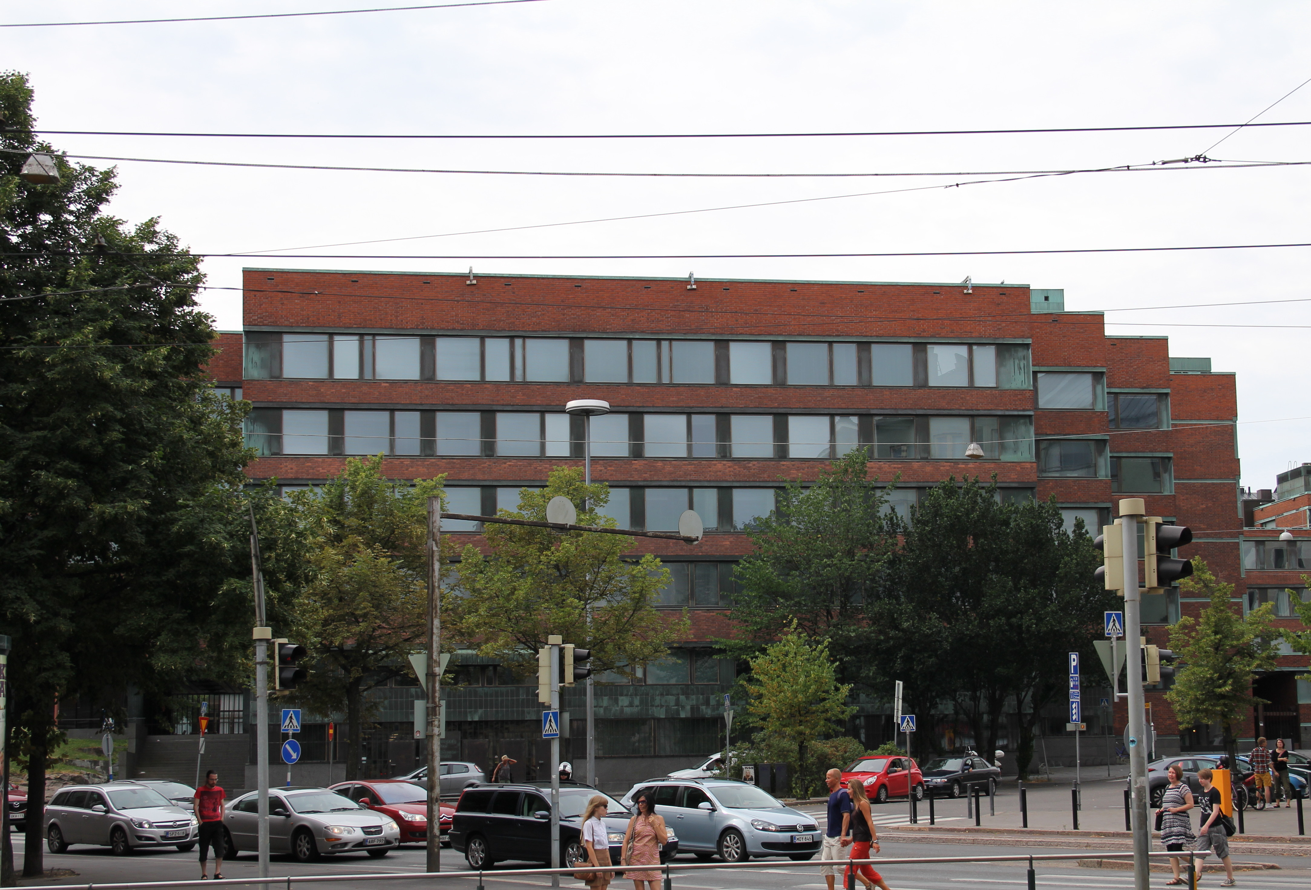 Kansaneläkelaitos headquarters, Taka-Töölö, Helsinki, Finland. Designed by Alvar Aalto, completed in 1956. - Main facade seen across Mannerheimintie, from east.